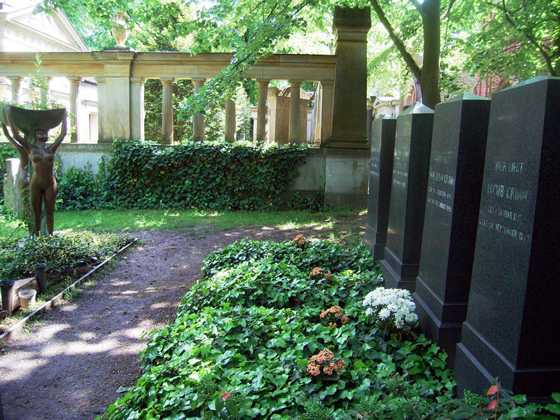 The Place of Death for the Brothers Grimm